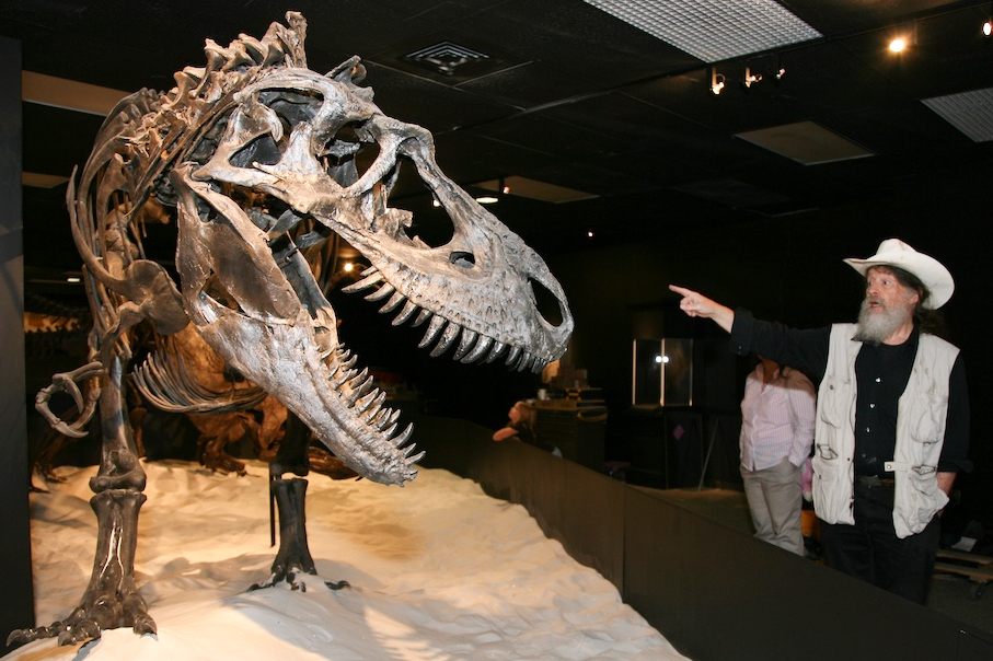 Dr. Bob Bakker of the Houston Museum of Natural Science (HMNS) with Gorgosaurus.